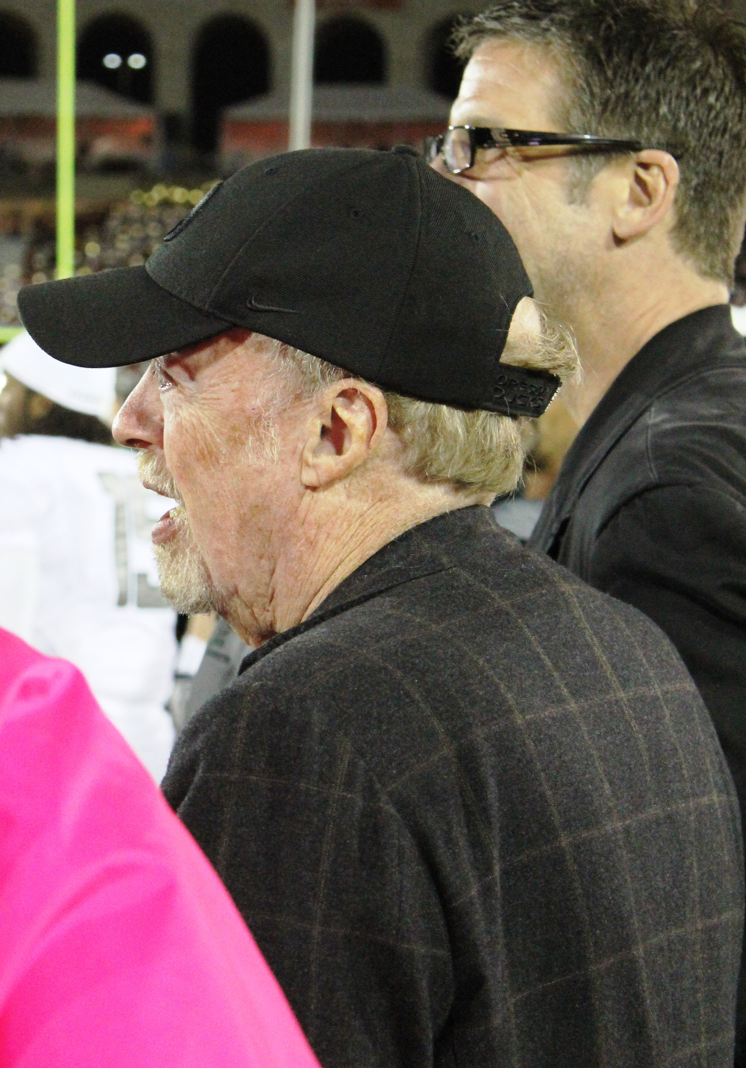 Phil Knight watching the Oregon Ducks vs. the USC Trojans. 필 나이트